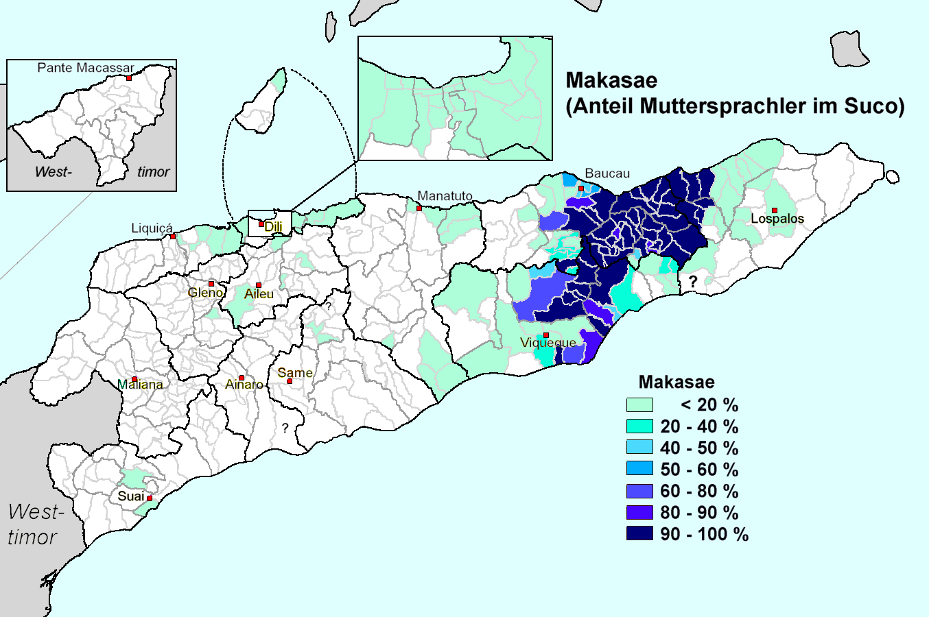 Percentage of people using Makasae as mother tongue in sucos of East Timor (Timor-Leste), according census 2010